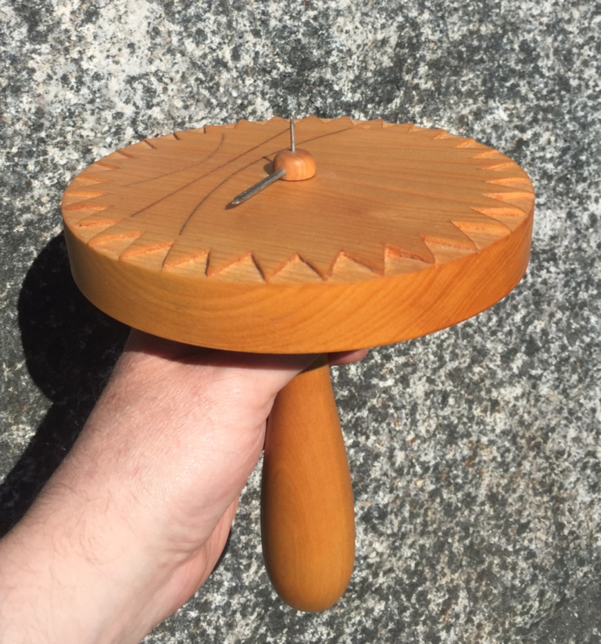 A modern speculative replica of the Uunartoq Disc, remains of which were found in the ruins of a Norse Greenland homestead in the present day district of Uunartoq in soutwestern Greenland's Kujalleq municipality. It is believed to have been an early Norse sun compass, used to determine true north and/or latitude.